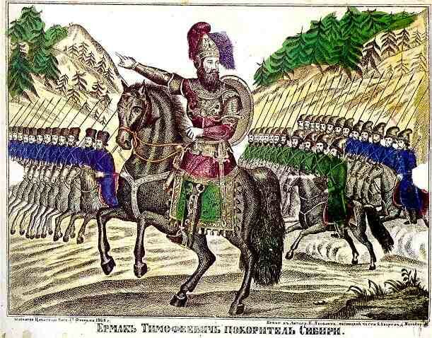 Yermak Timofeevich, conqueror of Siberia. Russian lubok.